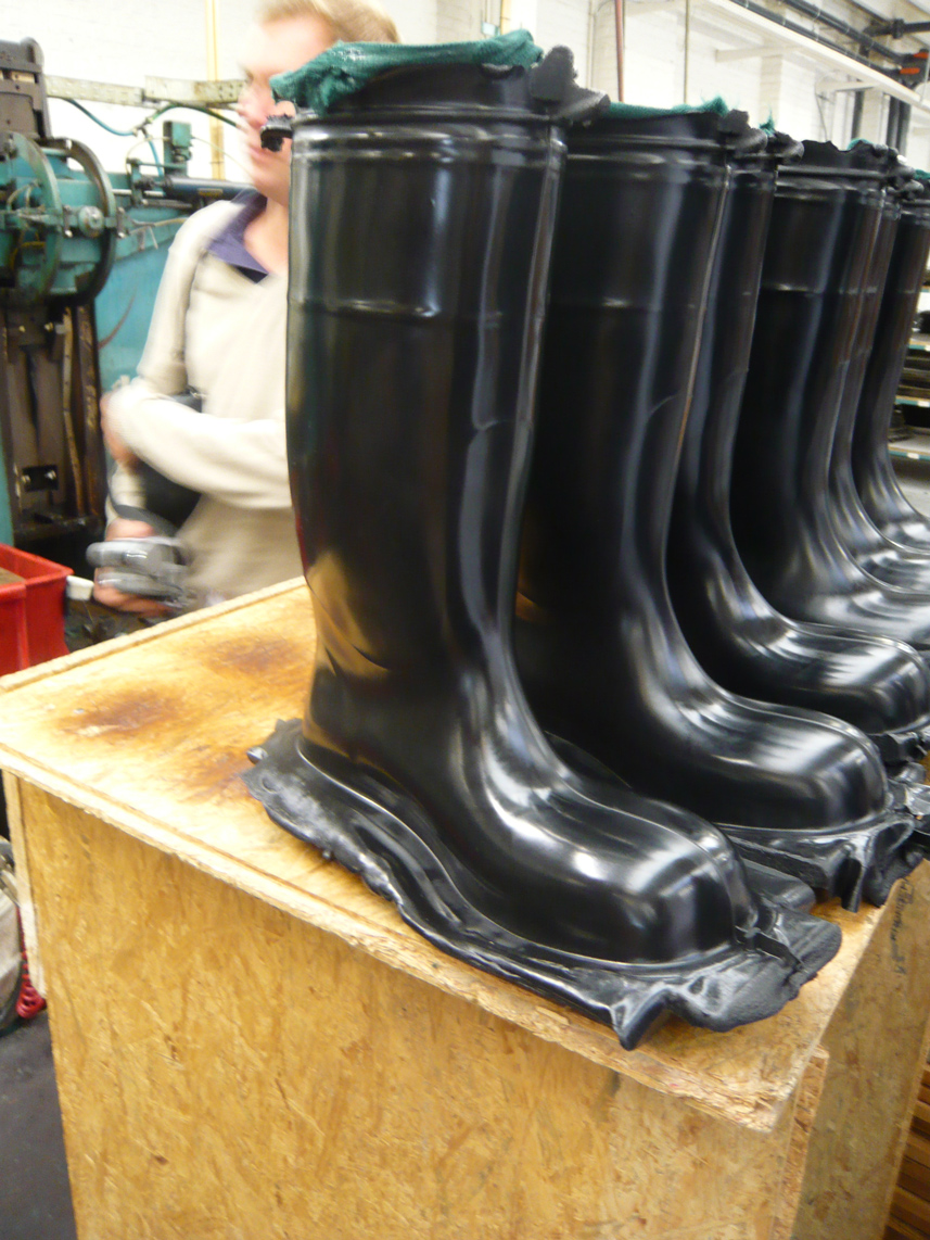 Compression molded boots before the flashes are trimmed off